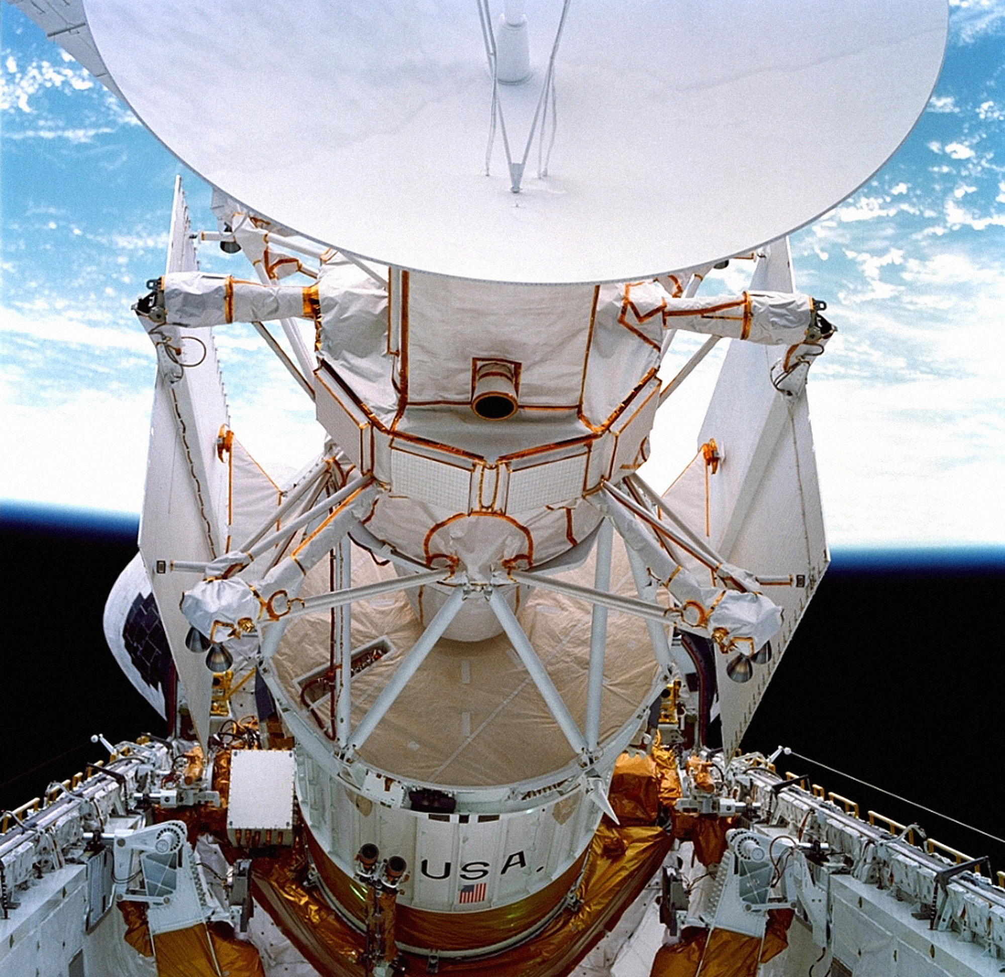 The Magellan/IUS stack are raised into position for release from Atlantis.